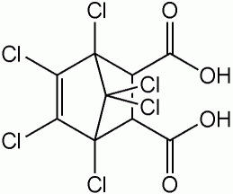 Description: Chemical structure of Chlorendic acid Author, date of creation: selfmade by Shaddack, 1 November 2005 Source: self-made Copyright: Public Domain (PD) Comments: b/w hires PNG; ChemDraw